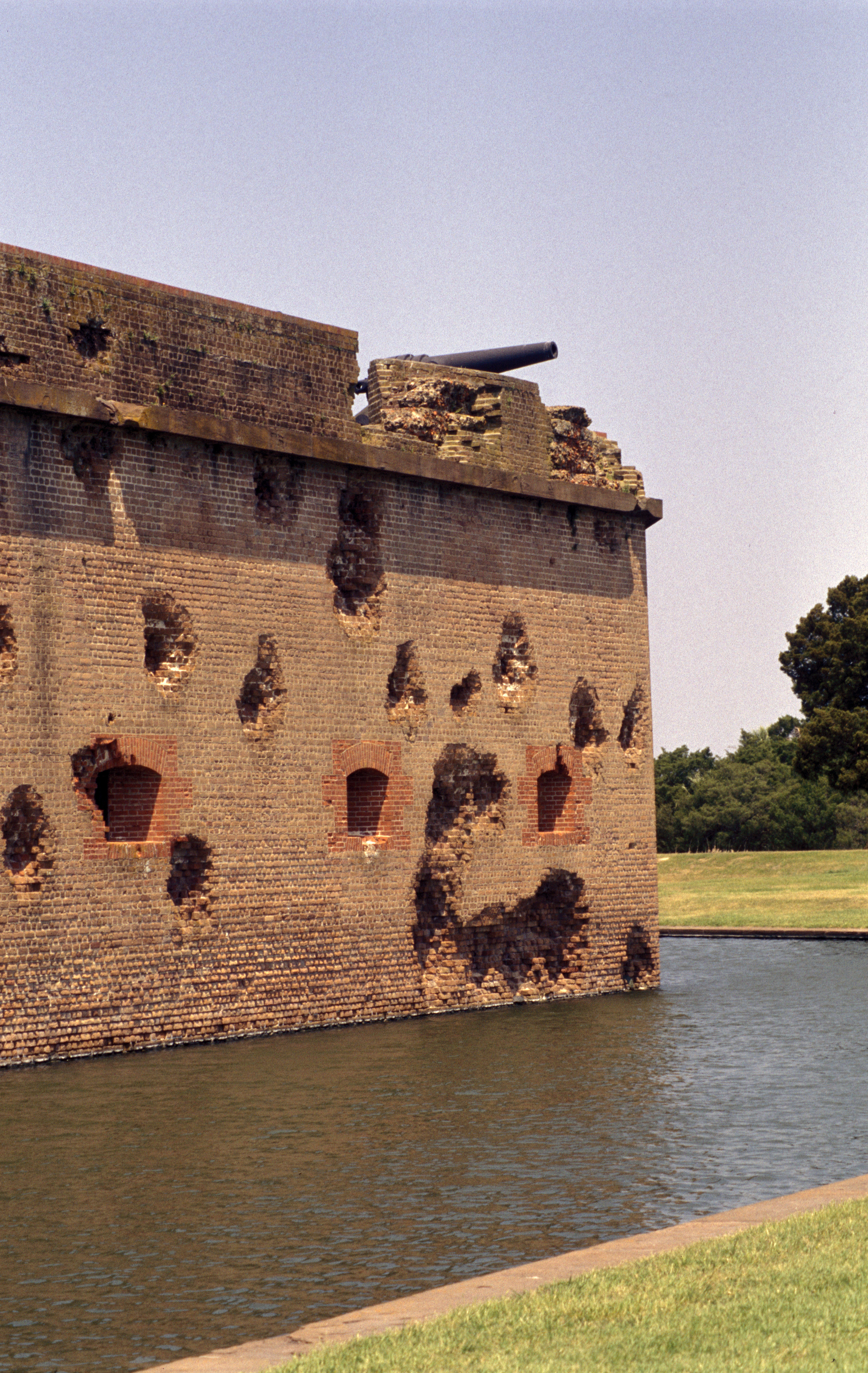 Wall of Fort Pulaski National Monument (US-GA) damaged by artillery shelling during the Civil War, scanned from a slide photography taken 2005-04-20